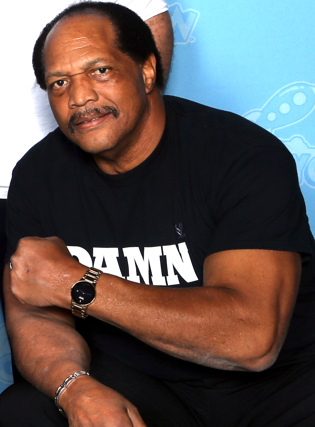 Lex Luger at GalaxyCon Richmond in 2020